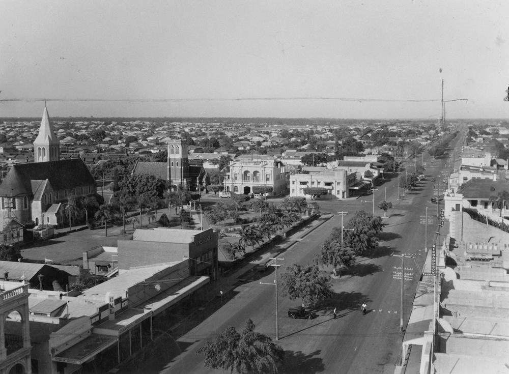 Looking west from Post Office tower at Bourbong Street, Bundaberg, 1954 View of Buss Park on the left Bourbong Street and the surrounding buildings including Richardson Furniture on the right.